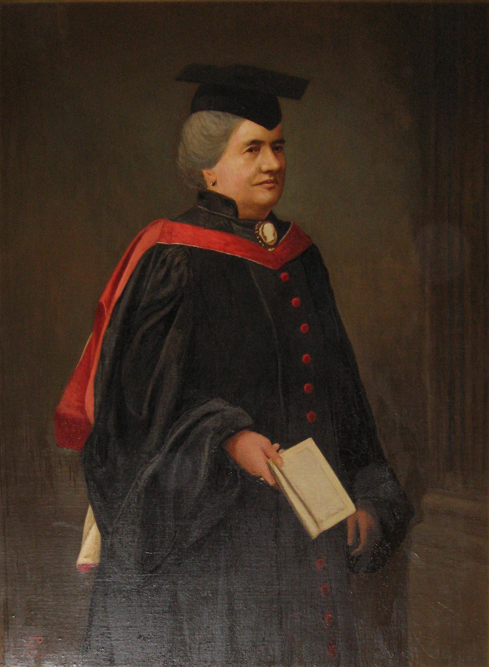 Depicted person: Agnes Smith Lewis – alumnus of the universities of Halle, St. Andrews, Heidelberg and Dublin